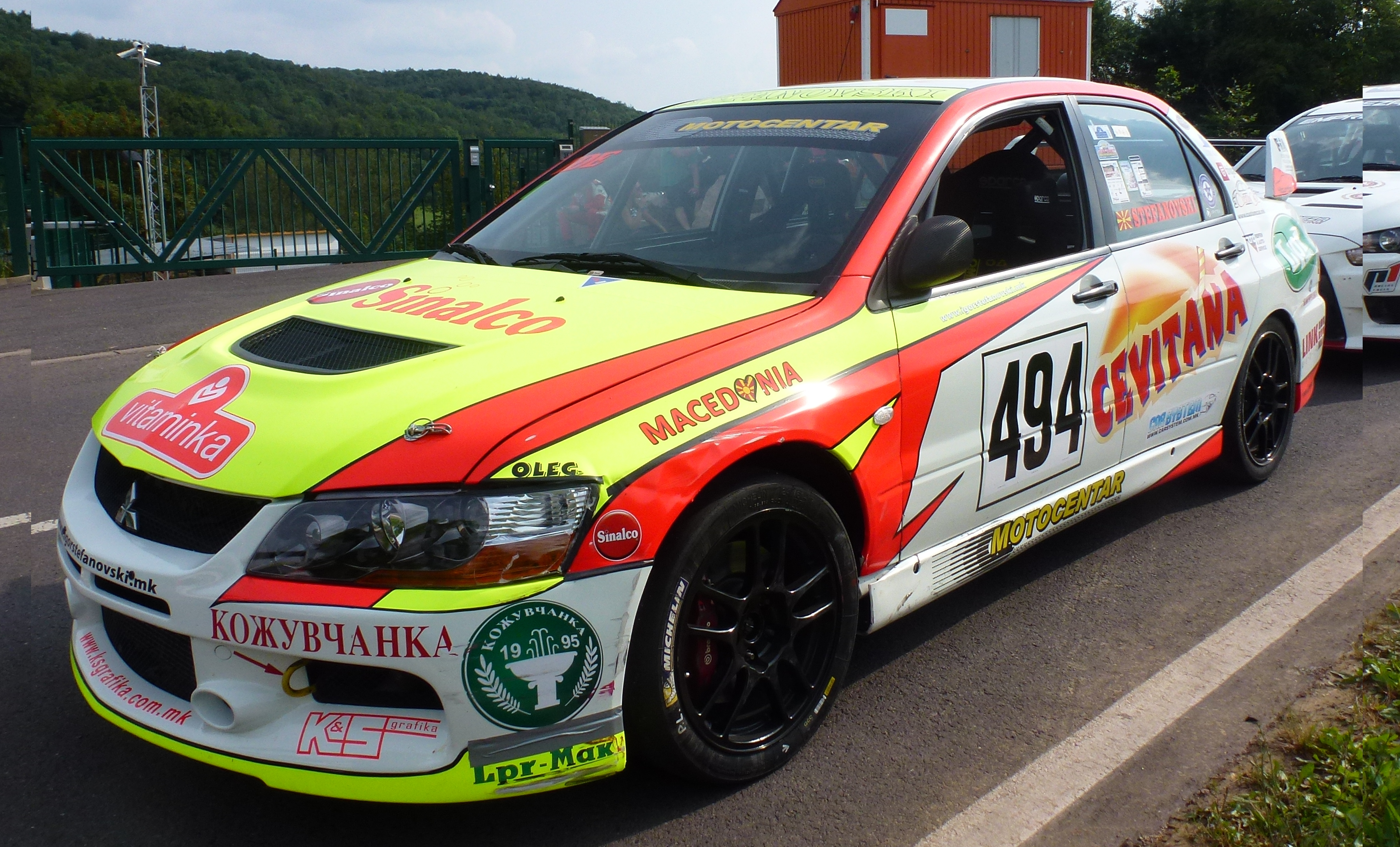 Race car of Igor Stefanovski